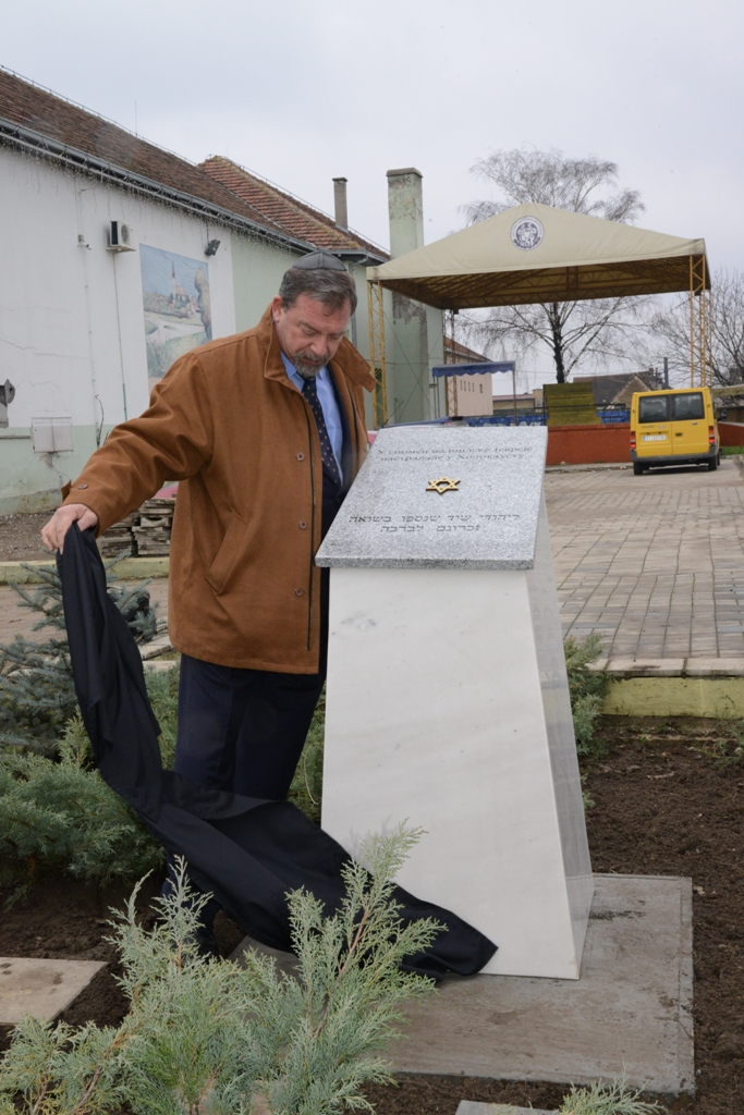 Ruben Fuks, President of the Federation of Jewish Communities in Serbia